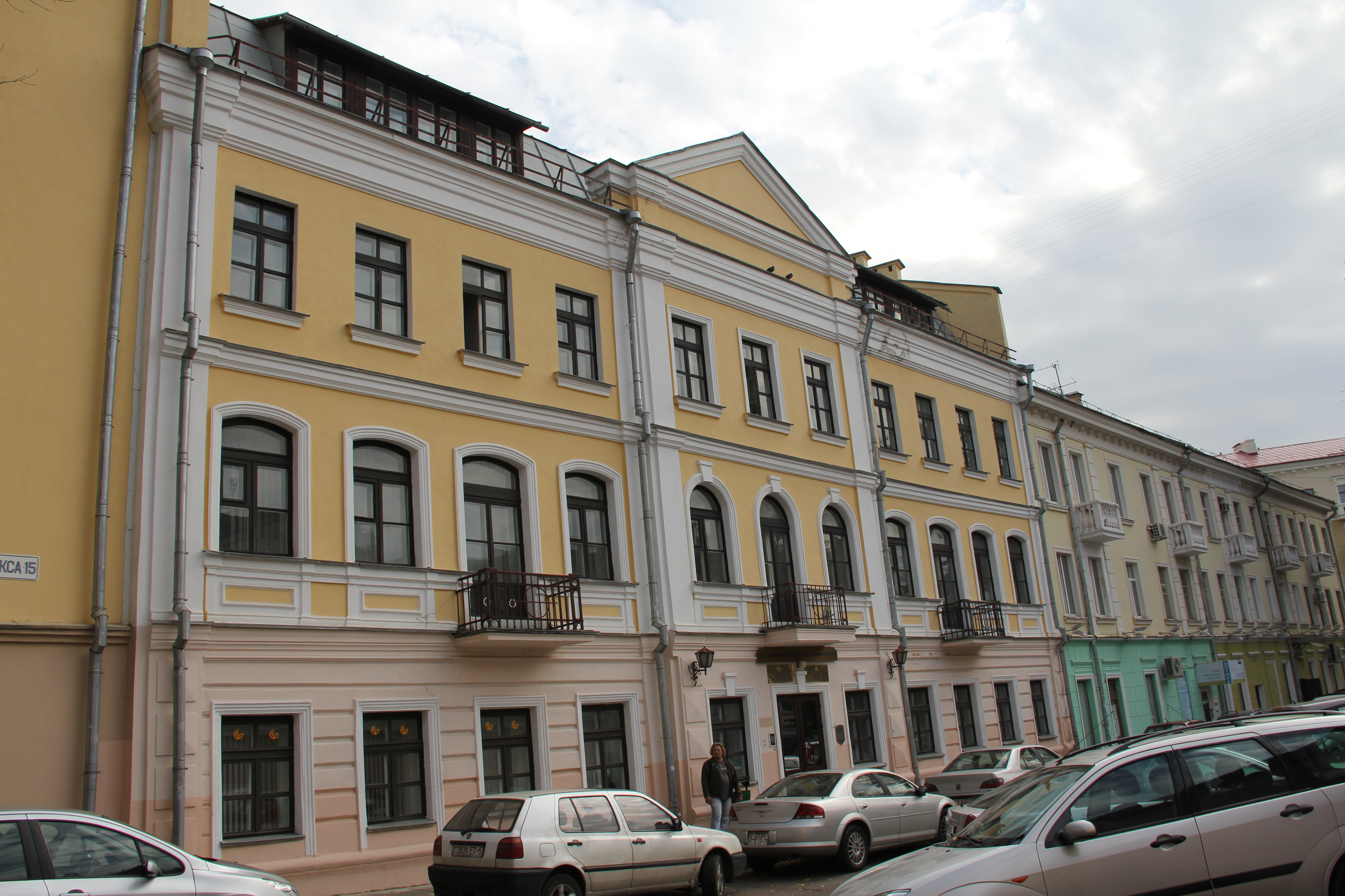 Беларуская (тарашкевіца): Будынак. г. Менск This is a photo of Belarusian heritage monument. Reference number: 713Г000119 ( WLM)